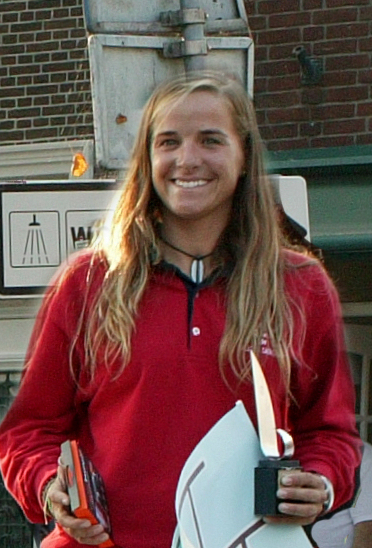 Bronze Medalist 2008 Vintage Yachting Games